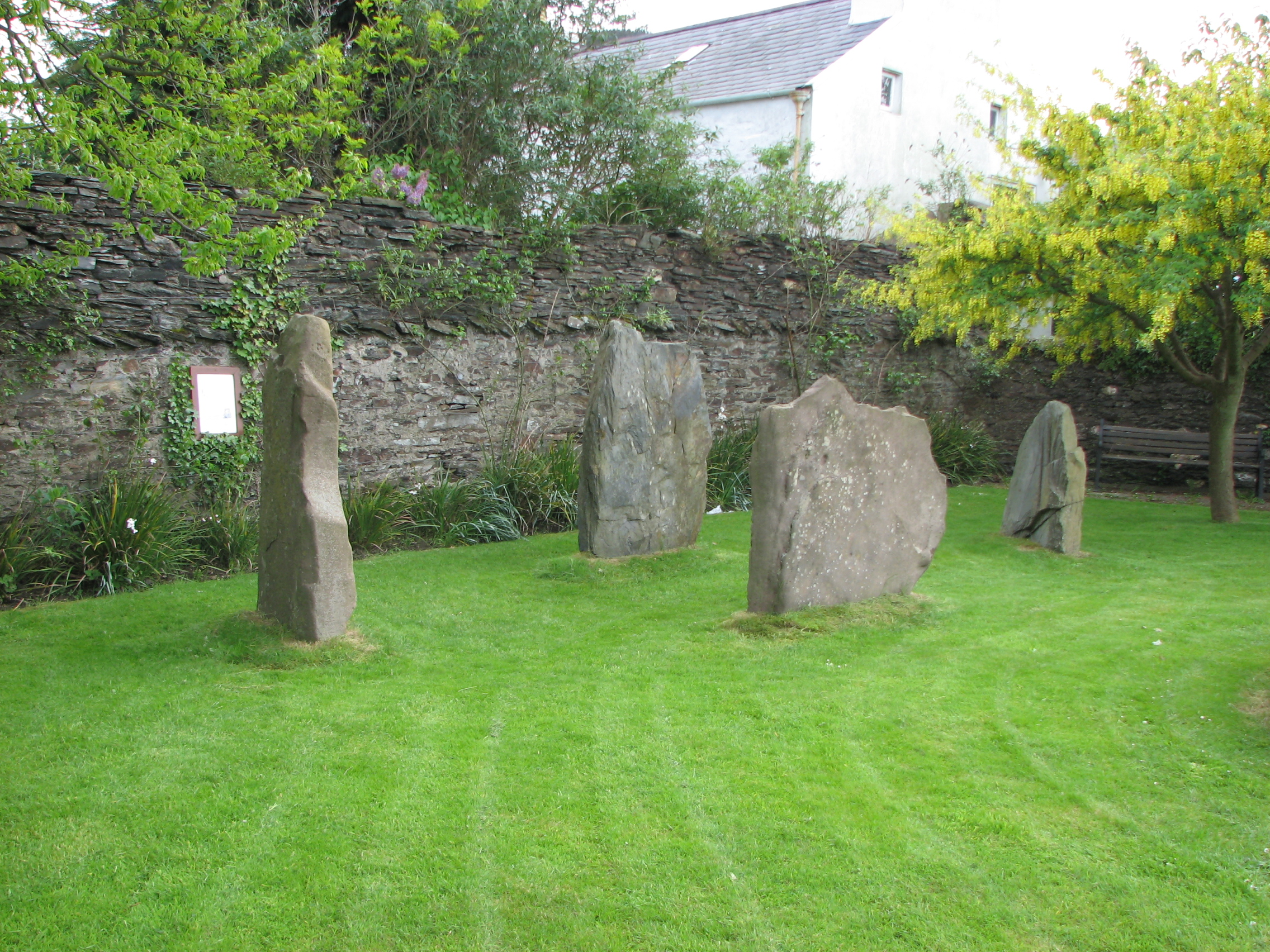 Ballaharra stones at St Johns, Isle of Man